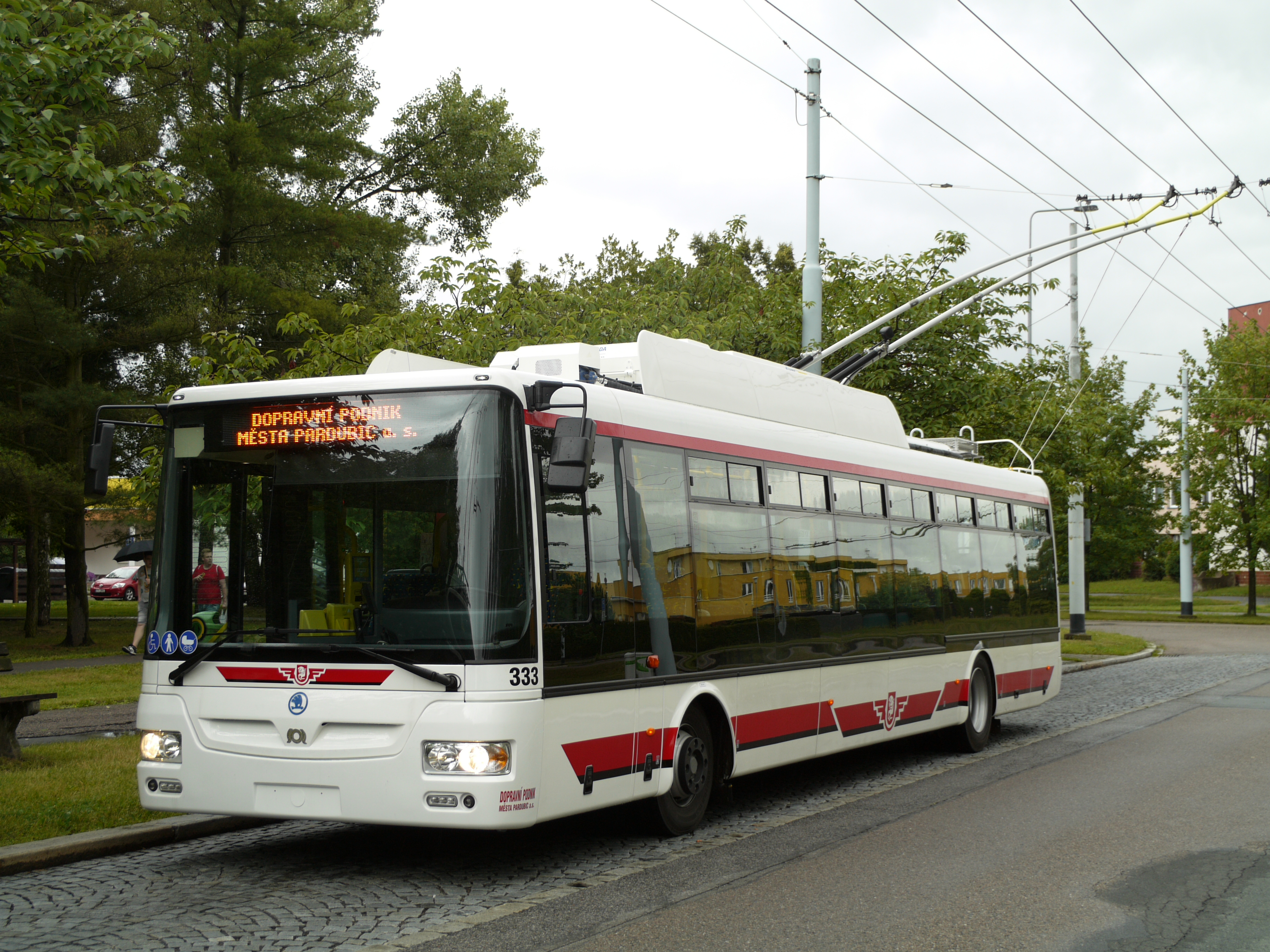 First day in service with passengers, Station Polabiny, točna